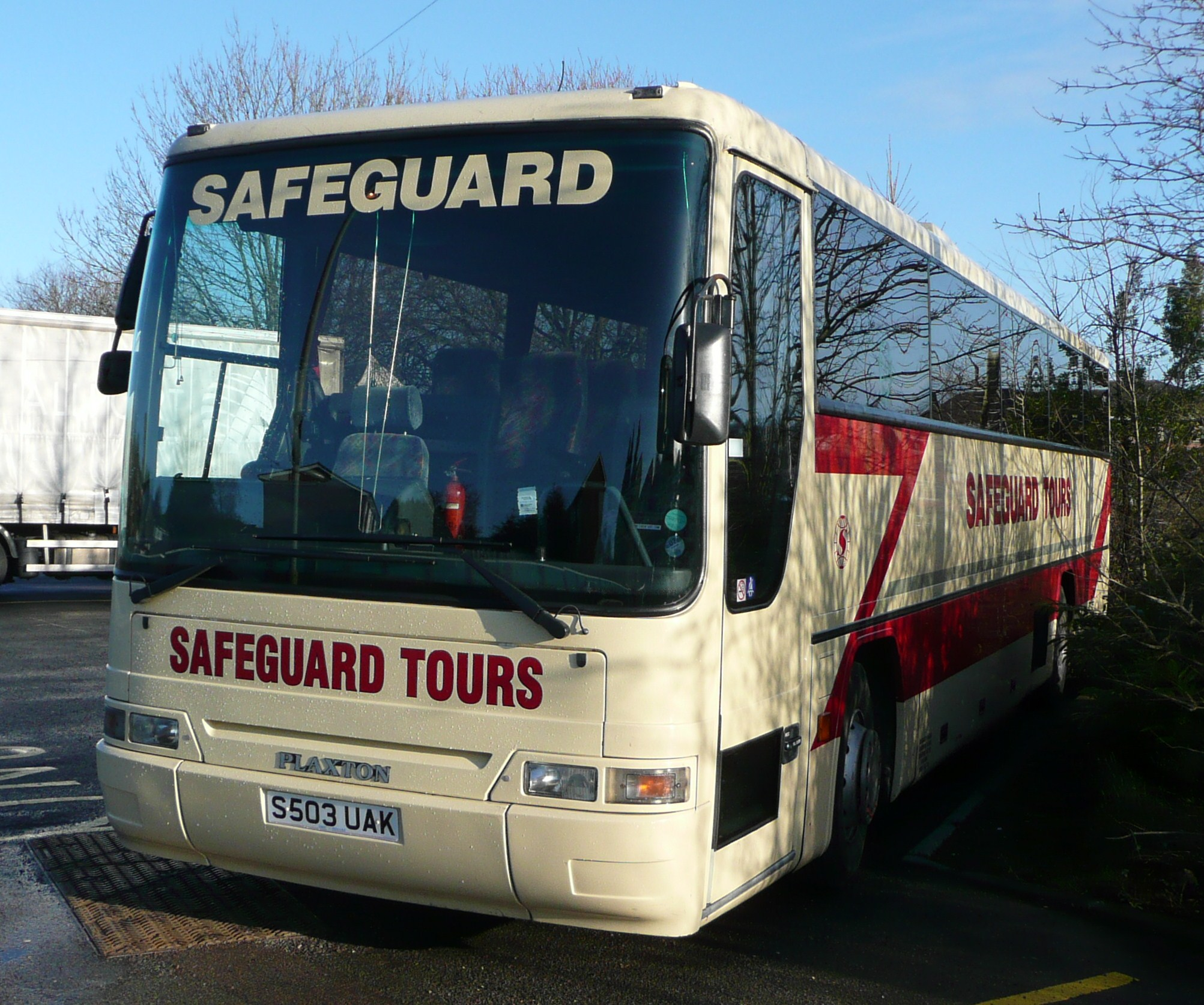 Safeguard Coaches' S503 UAK, a Dennis Javelin/Plaxton Premiere, parked near their depot in Guildford on University of Surrey land.